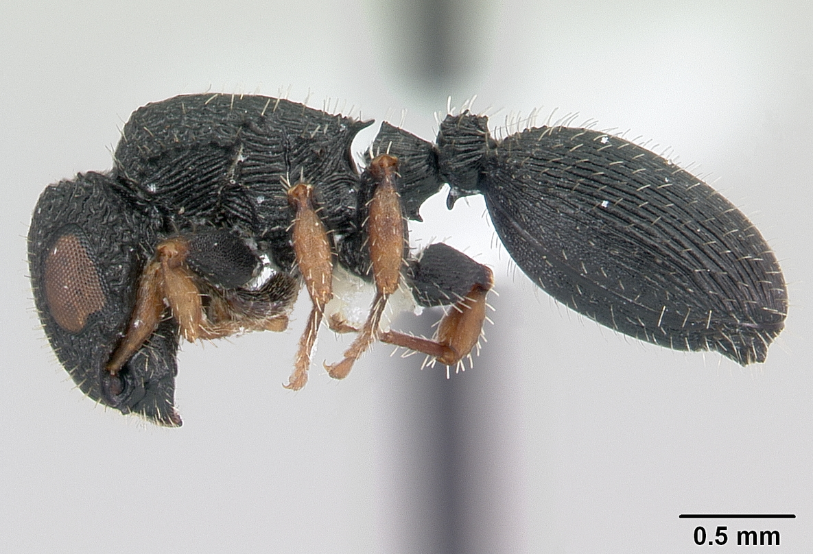 Profile view of ant Cataulacus striativentris specimen casent0178290.